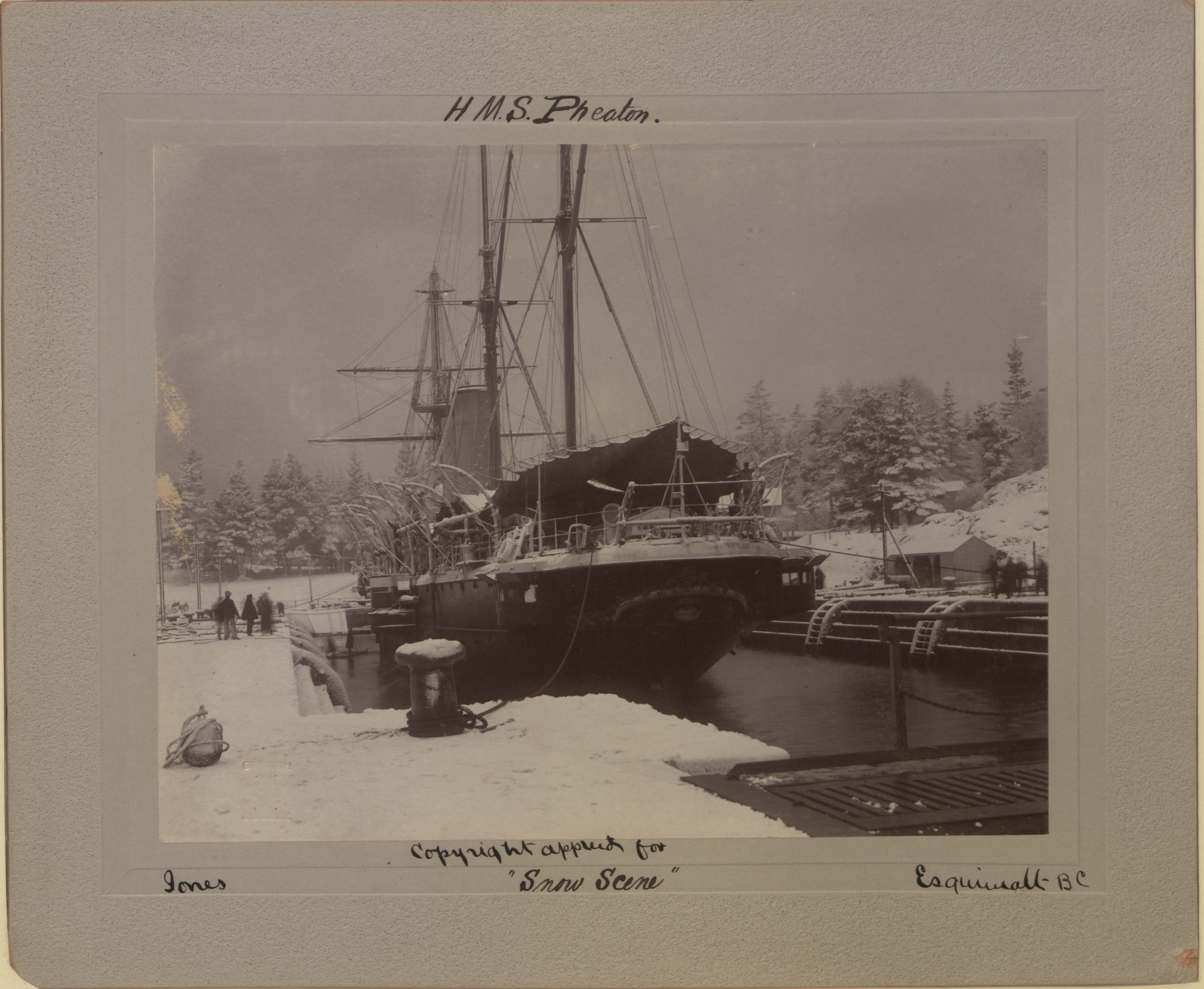 HMS Phaeton. Snow scene. Stern view of HMS 'Phaeton' in a graving dock at Esquimault in winter.